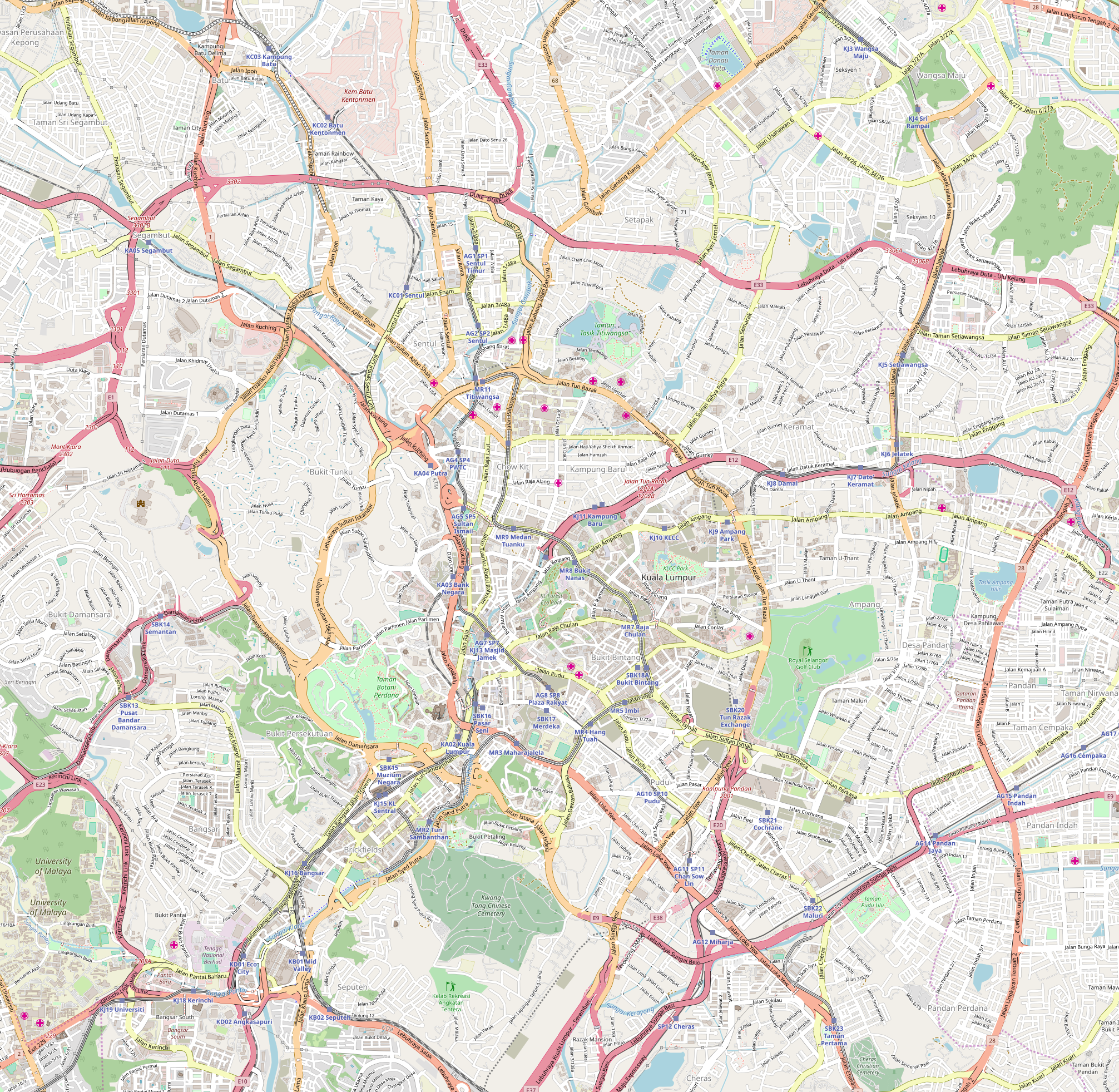 Map of central Kuala Lumpur Geographic limits of the map: N: 3.2092° S: 3.1057° W: 101.6488° E: 101.7561°